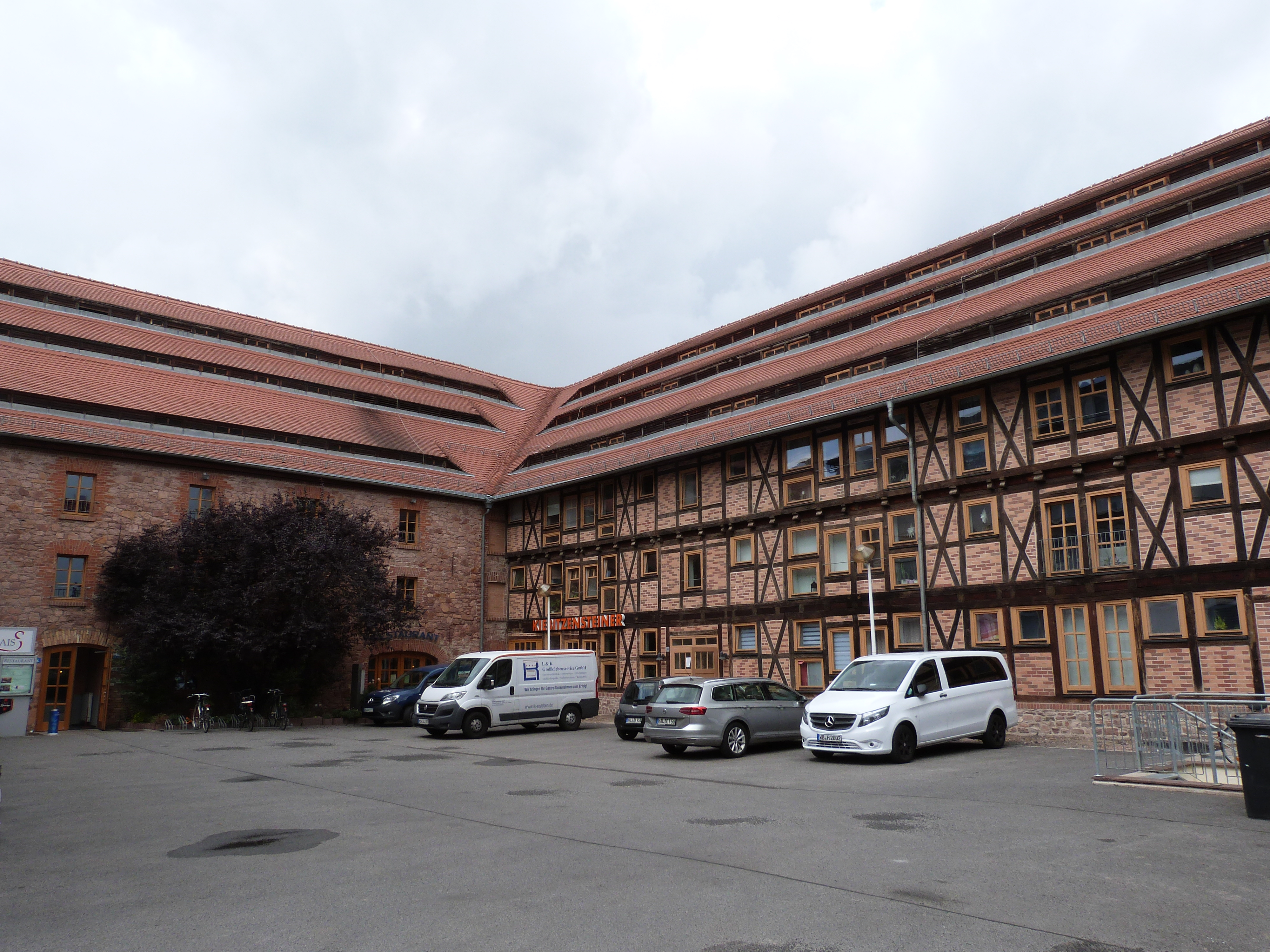 Ankerstrasse No. 3c, 3d, former storage buildings, Halle (Saale)